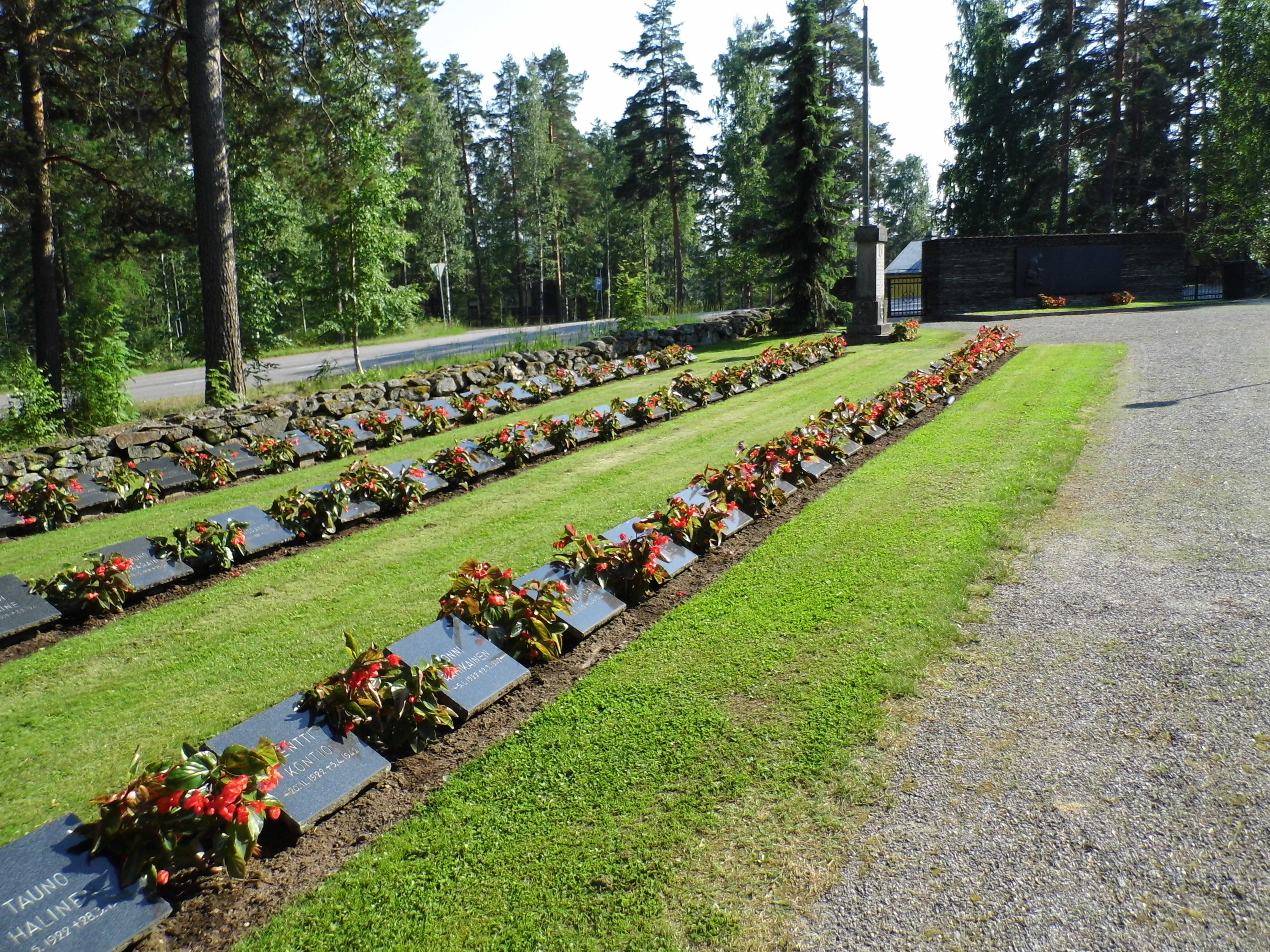 Military cemetary at church in Anttola, Finland